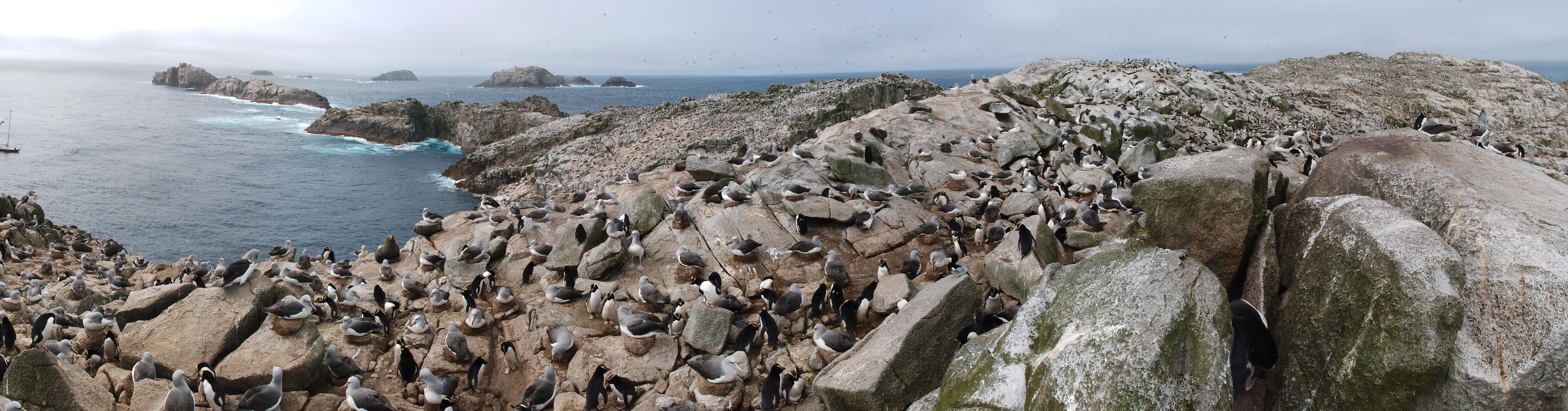 From Proclamation Island - looking South East. Depot island is on the right, Lion Island is on the far left foreground with Ranfurly to the right. North Rock, Molly Cap and Funnel Island in the distance from left to right.